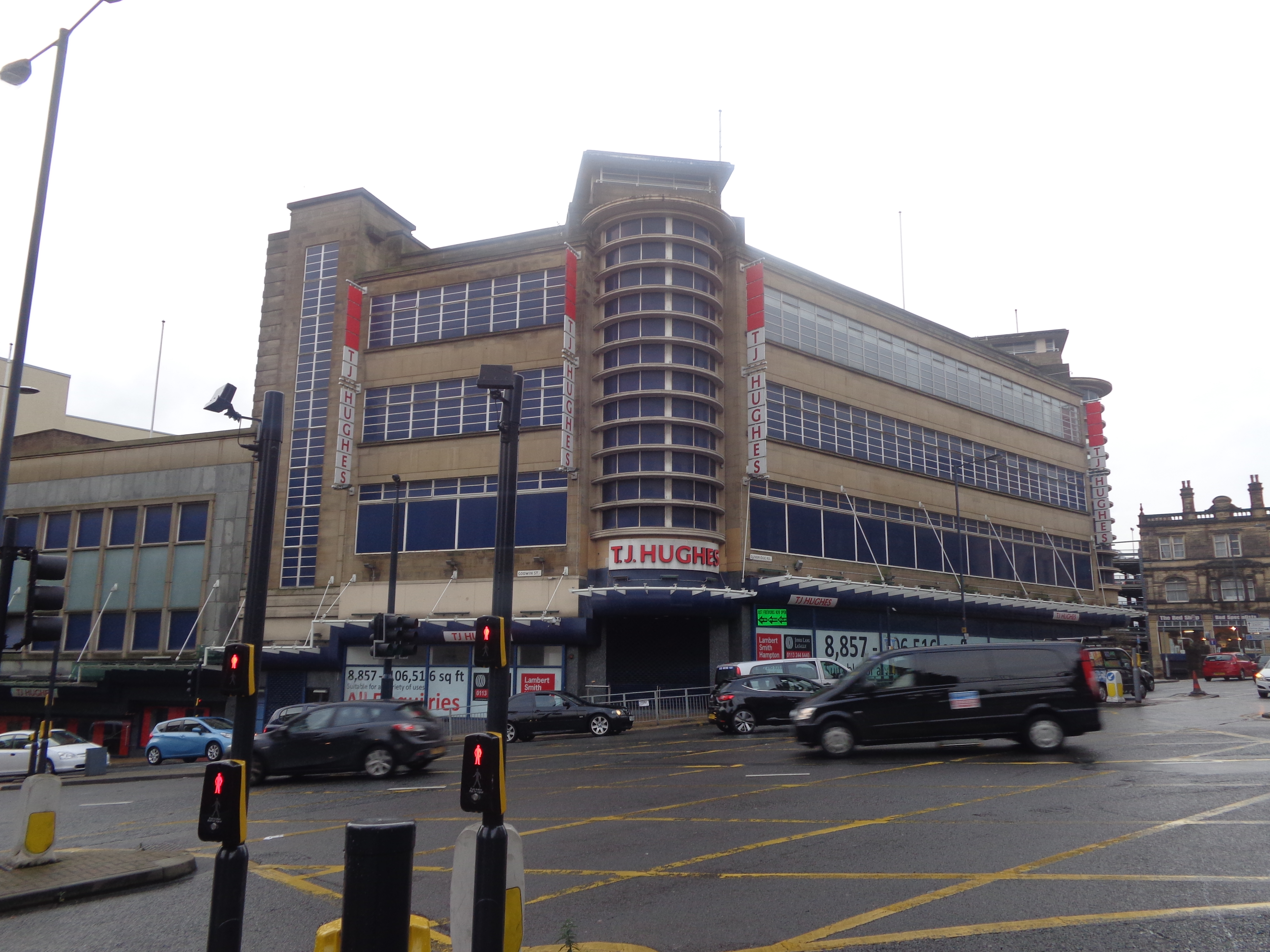 T.J. Hughes, Sunbridge Road, Bradford, West Yorkshire. Taken on the afternoon of Saturday the 8th of November 2014.